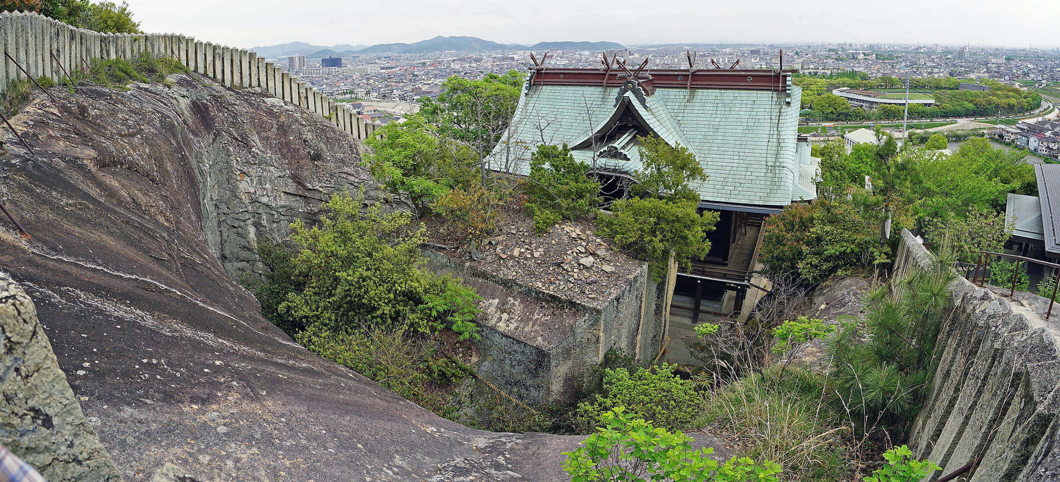 Ishi-no-hoden , 石の宝殿